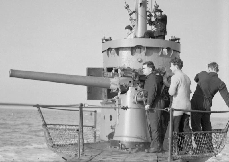 The gun's crew going into action with the 3 inch gun while the Commanding Officer watches from the conning tower of HMSM Sunfish whilst she was at Portsmouth. Comment : the gun is a QF 3 inch 20 cwt.